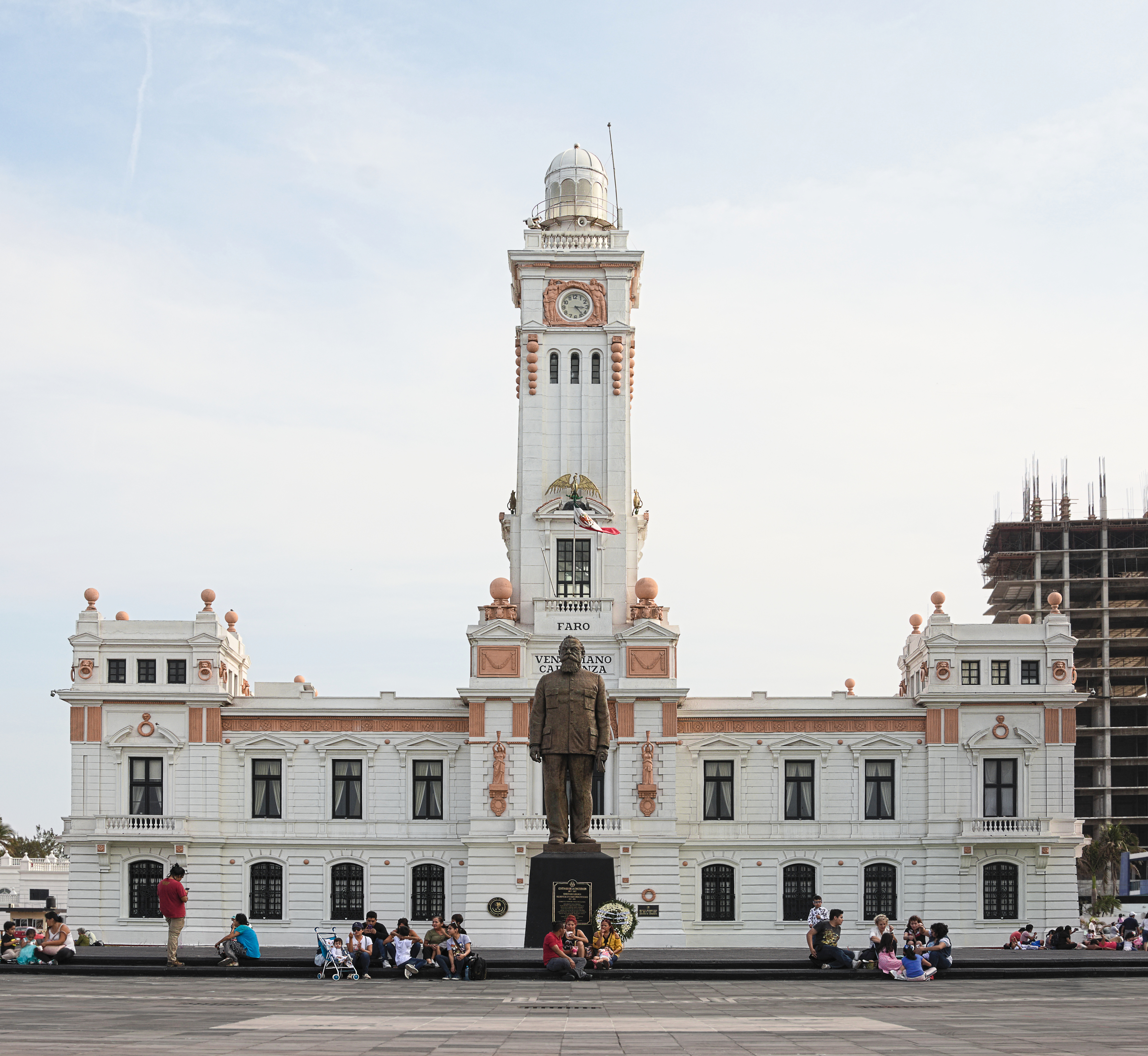 "Venustiano Carranza" Lighthouse. This building is the base of the third zone of Mexico Navy